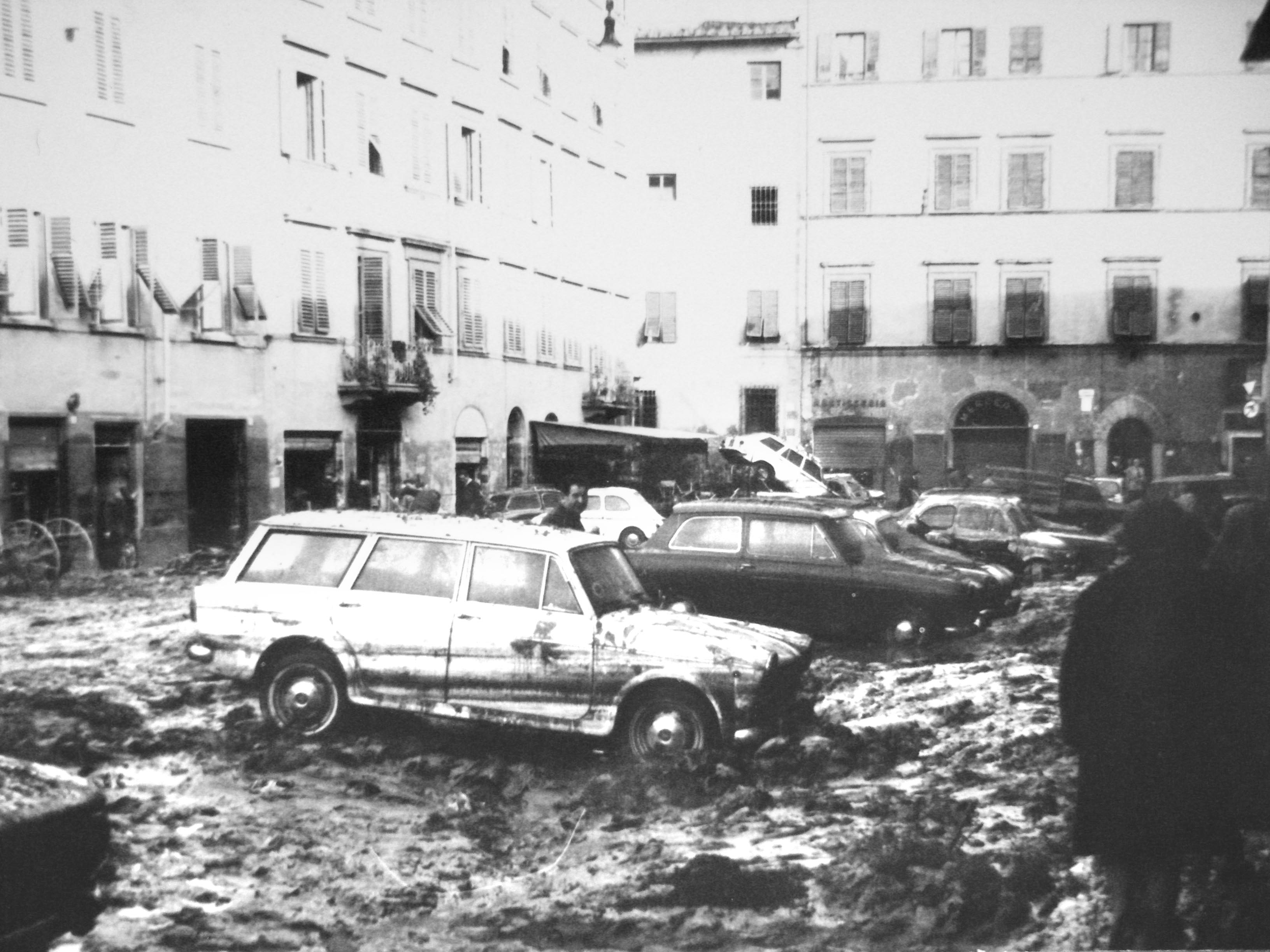 Carmine square after the flood in Florence 1966